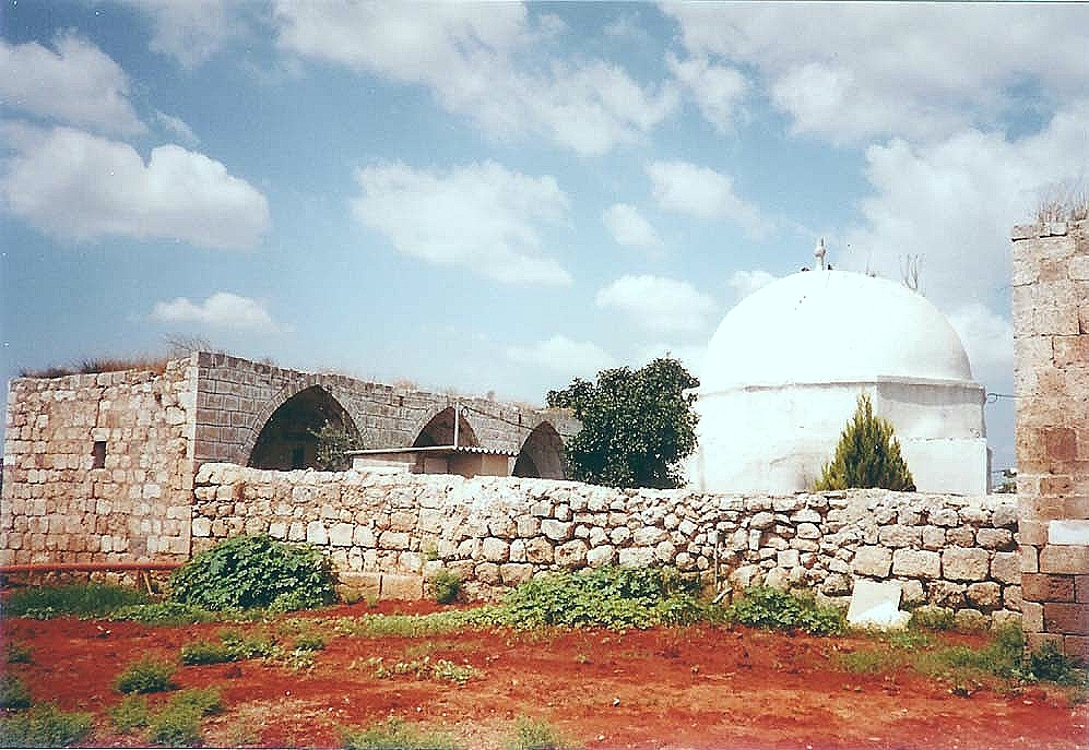 Exterior view of Kever Binyamin (Tomb of Benjamin), located outside Kfar Saba, Israel.